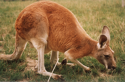 Red Kangaroo